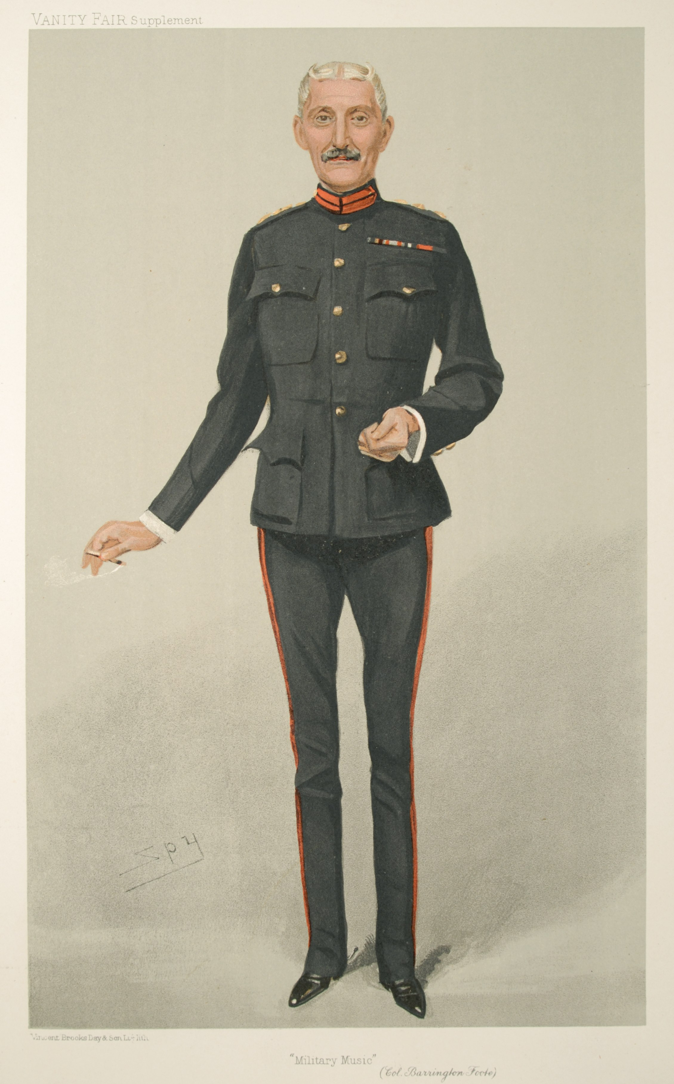 Caricature of Colonel F.O. Barrington Foote (1850 – 1911), Principal of the Royal Military School of Music, Kneller Hall. Caption read "Military Music".